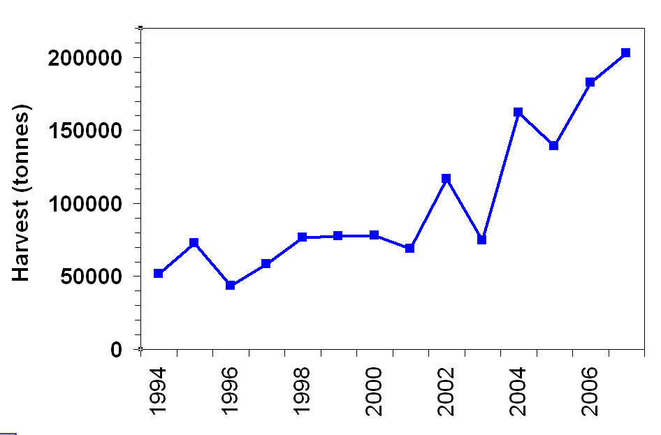 Tonnes of grapes harvested in New Zealand, 1996-2017. Figures sourced from New Zealand Winegrowers 2006, 2010, 2014, and 2017 annual reports. Chart produced in LibreOffice Calc, finished in Inkscape. Font: EB Garamond.